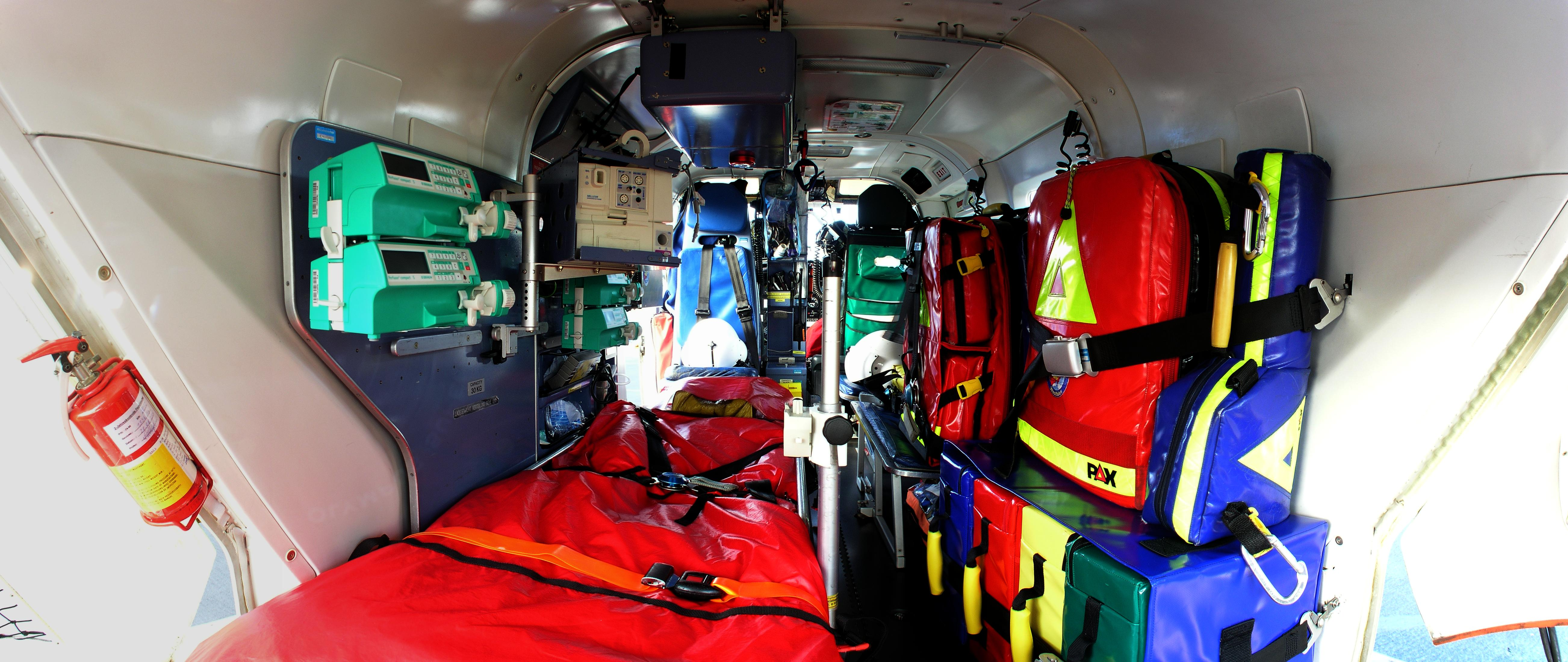 Overview about the open tail of a rescue helicopter for transferring patients on a intensive care level